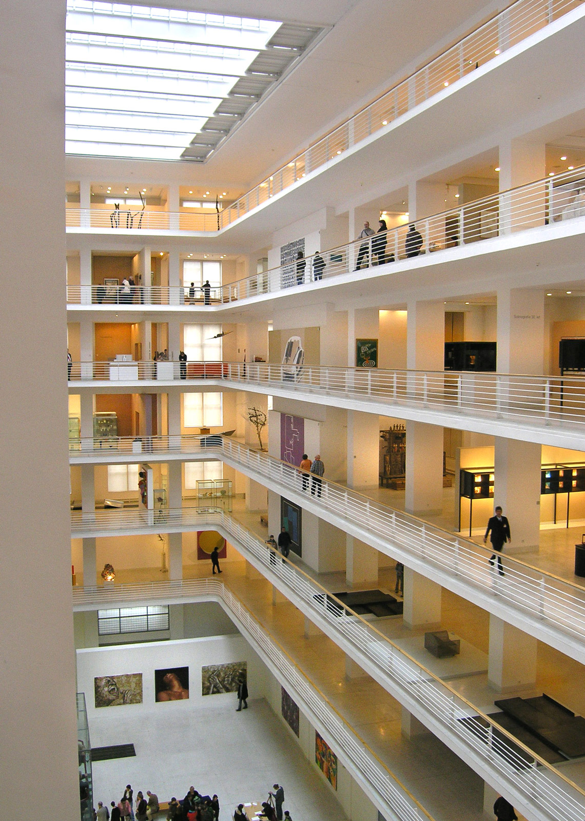 Trade Fair Palace hall, Prague